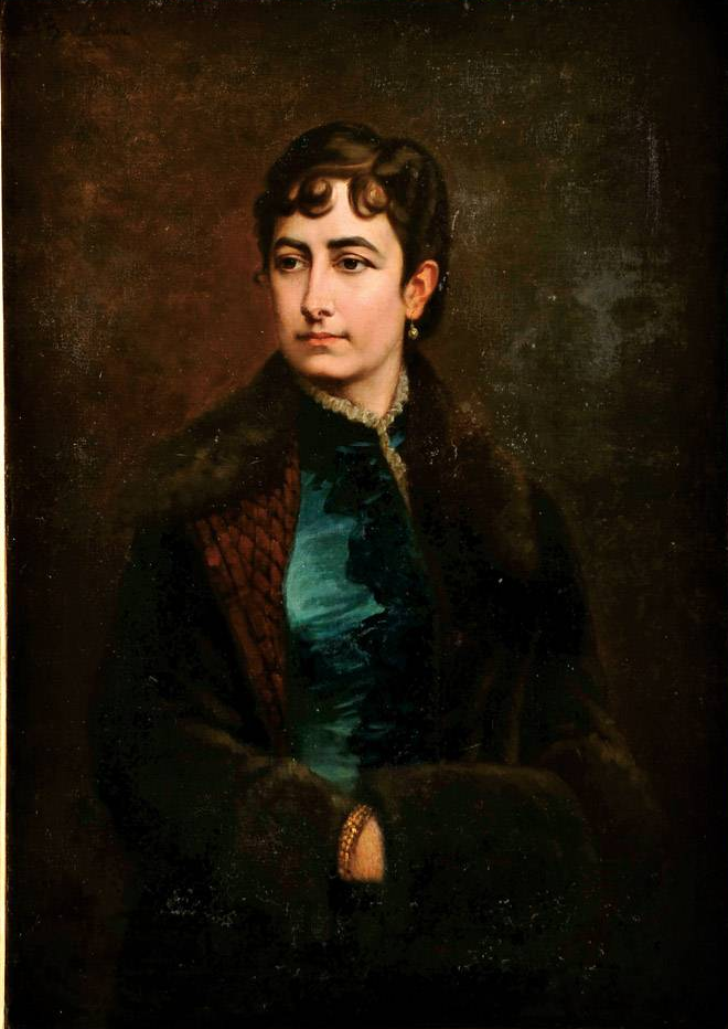 Amélia Burnay (1847-1924), Countess of Burnay.